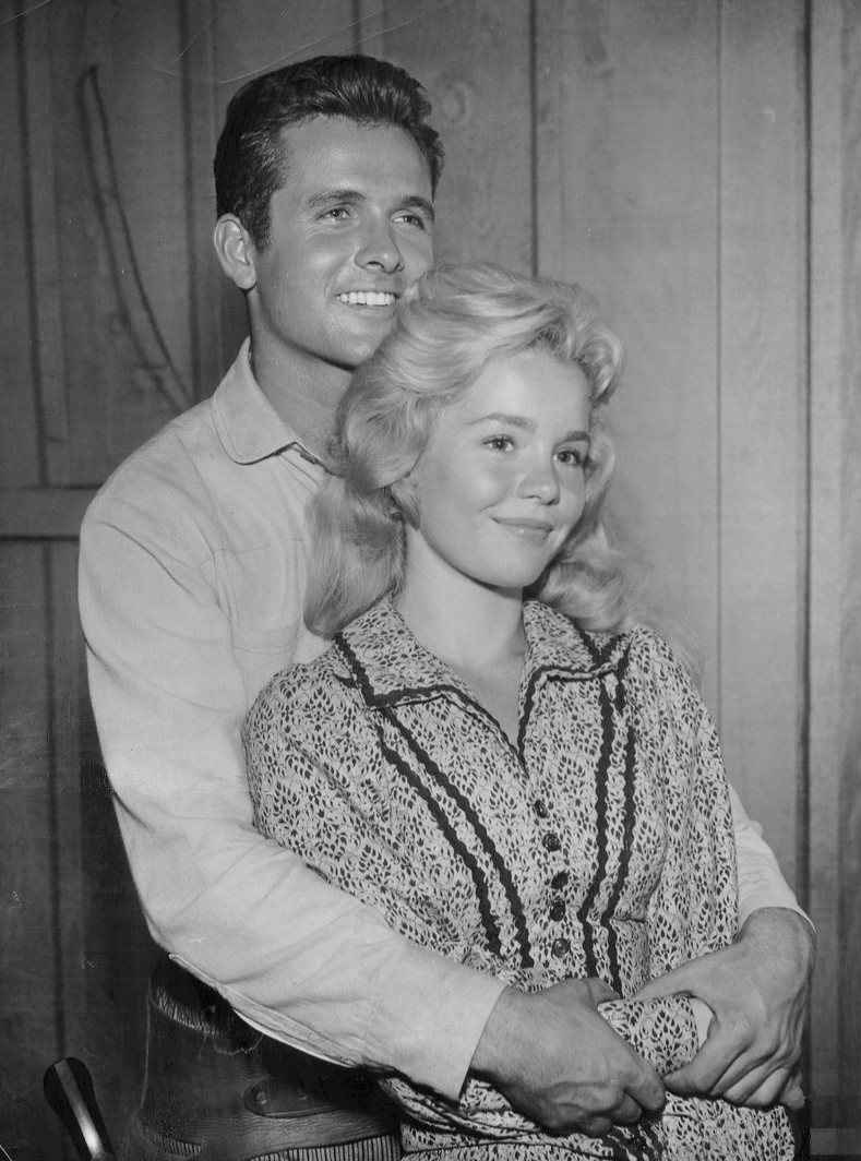 Photo of Mark Goddard and Tuesday Weld from Zane Grey Theatre.